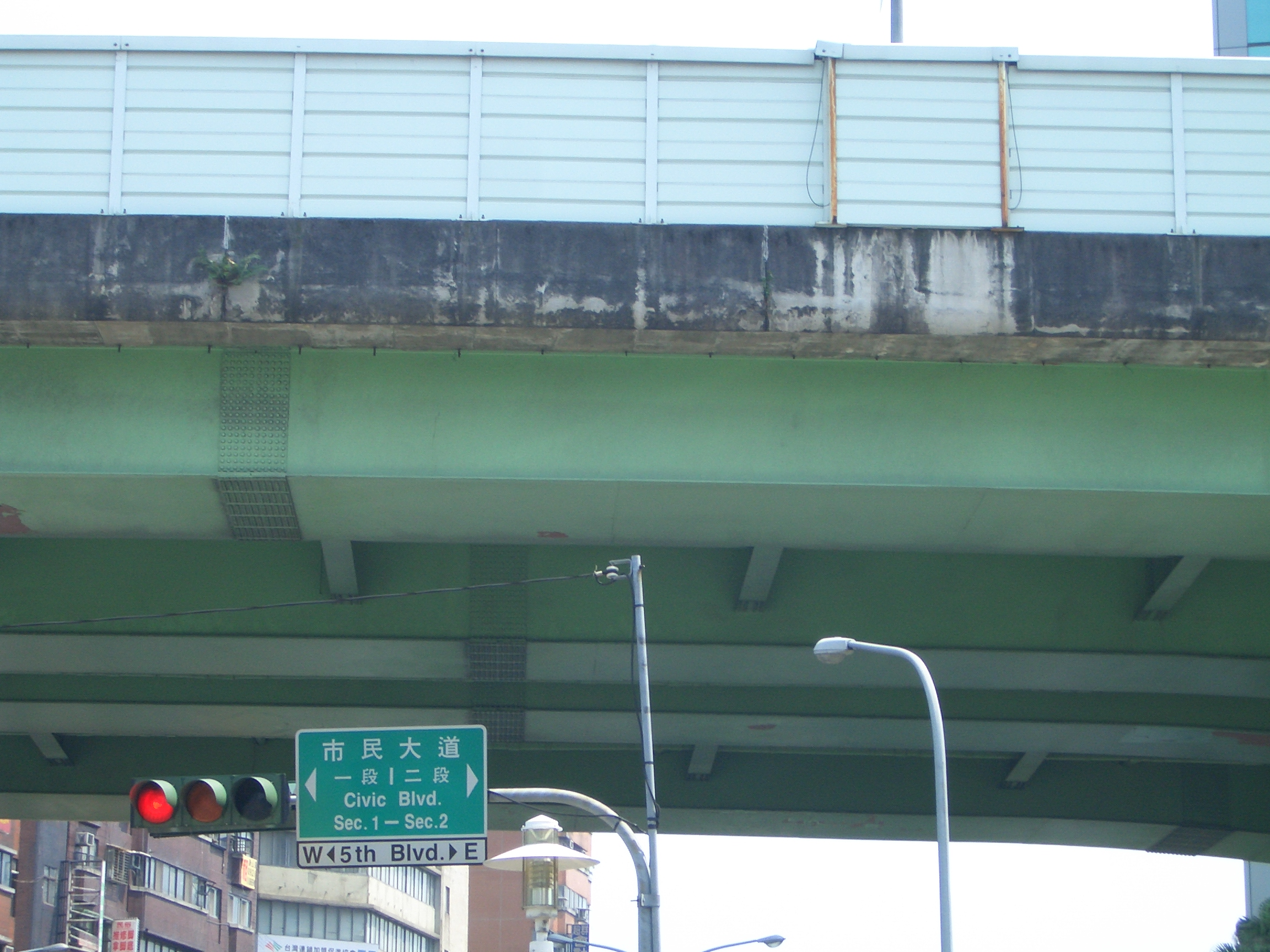 Civic Blvd., Taipei City.